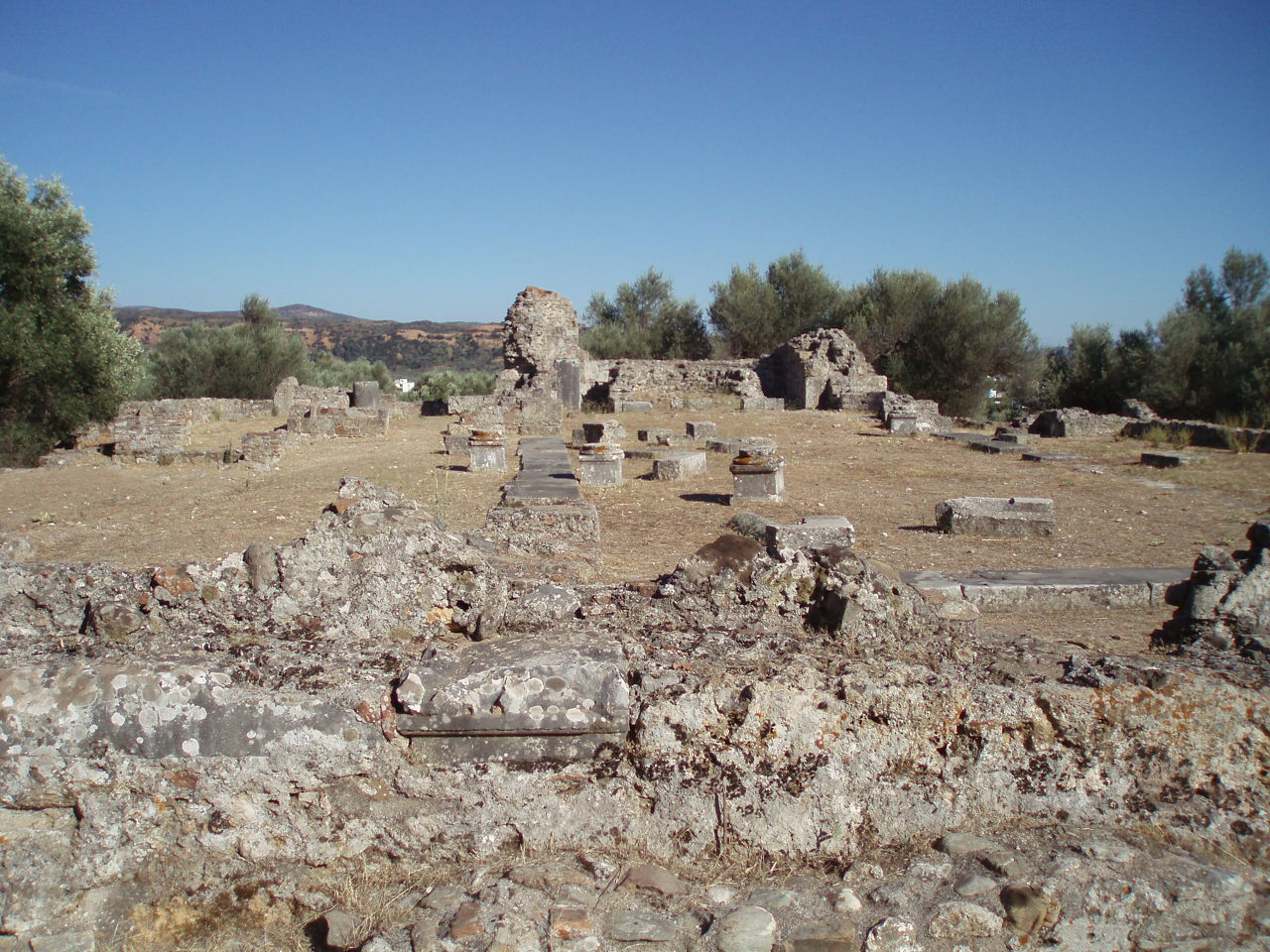 Ruins of Sparta acropolis.